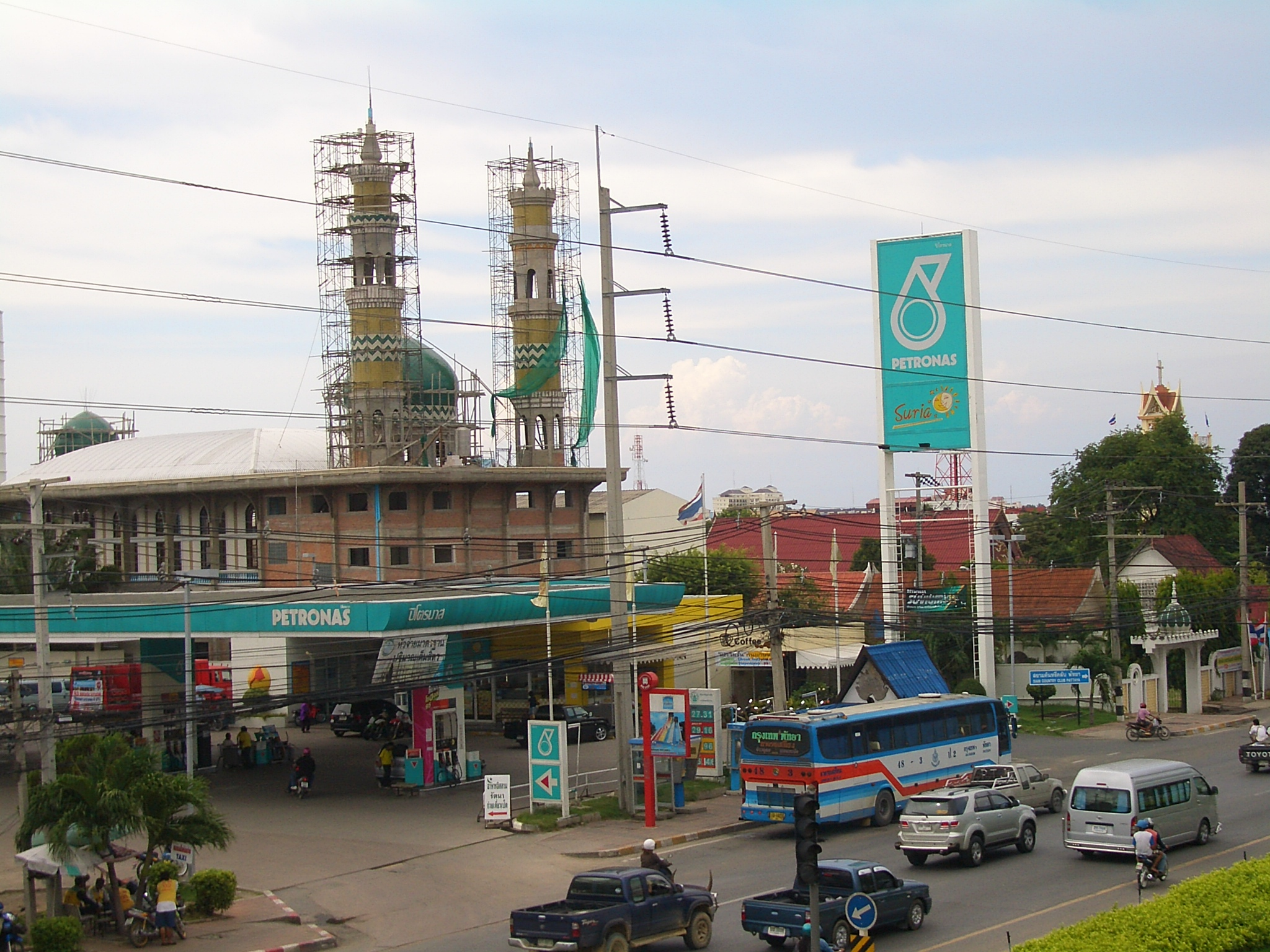 Sukhumvit Road (Highway No.3, an important north-south highway) in Pattaya, Thailand. A mosque and a Christian church can be seen.